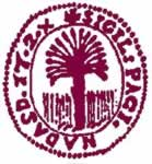 Coat of arms of Mecseknádasd, Hungary